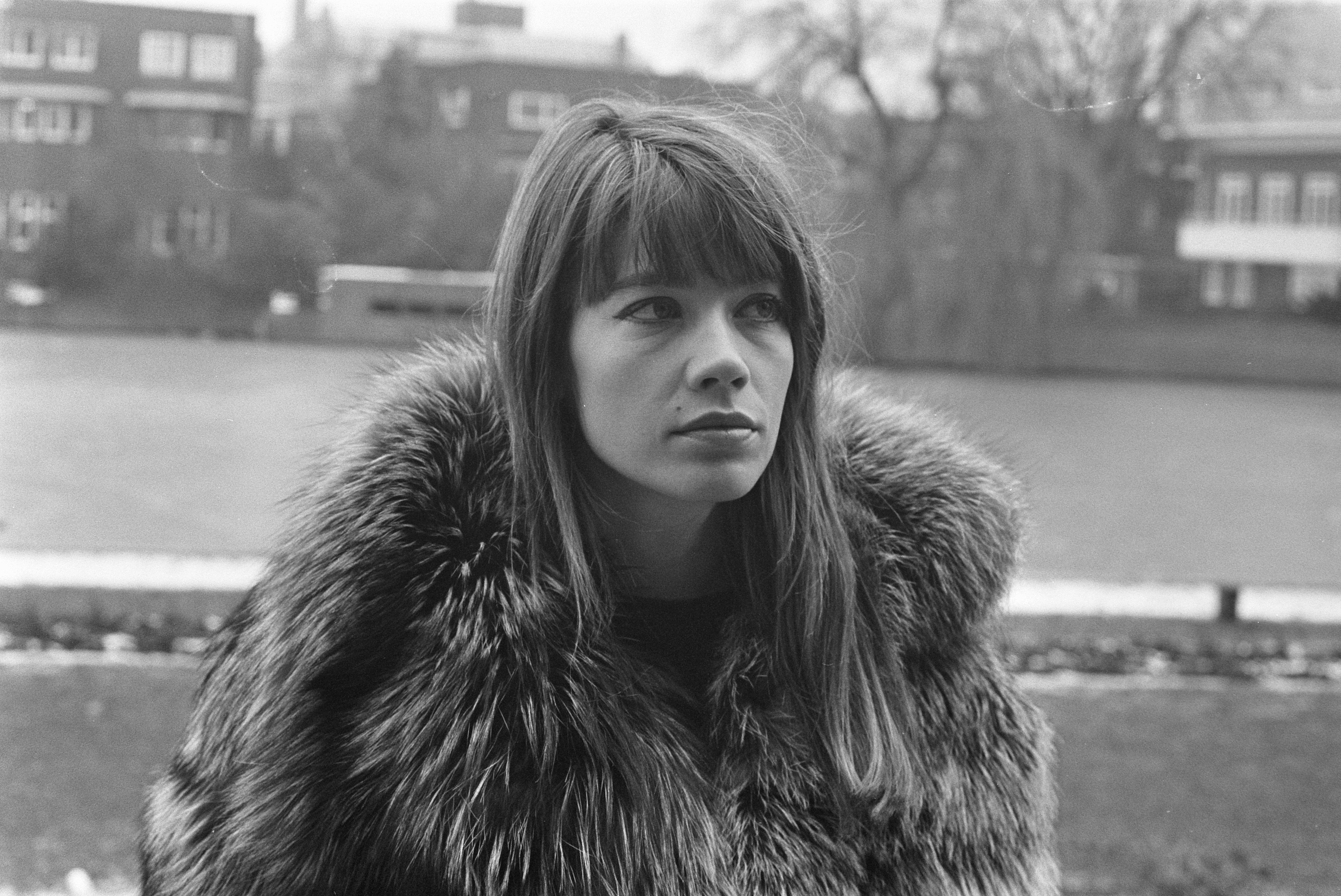 Françoise Hardy in Amsterdam, 16 December 1969. Photograph by Joost Evers. Dutch National Archives, The Hague, Fotocollectie Algemeen Nederlands Persbureau (ANEFO), 1945-1989 - Negatief (zwart-wit). Finding aid number 2.24.01.05, item number .